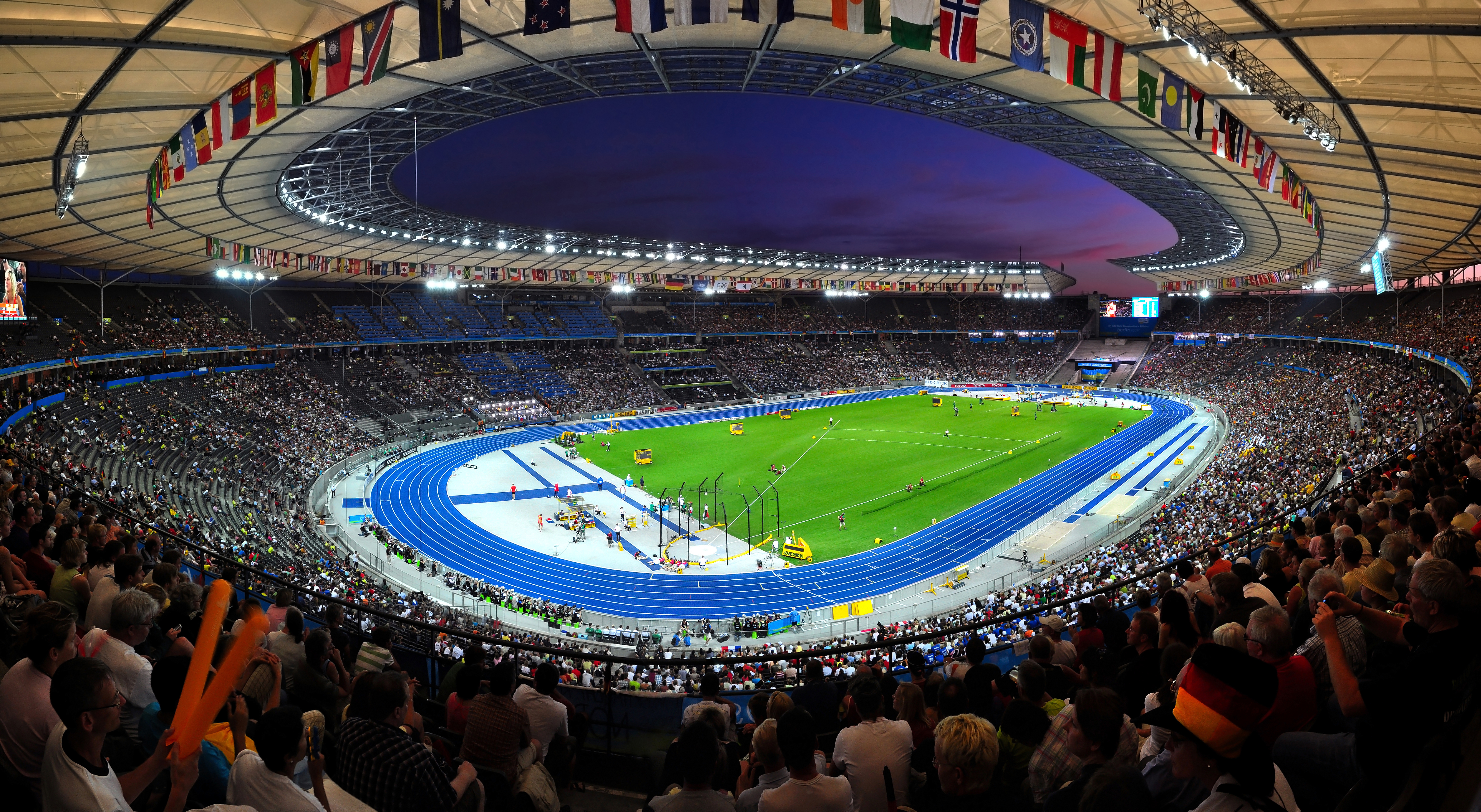 Panoramic view of the olympic stadium of Berlin during the 12th IAAF World Championships in Athletics